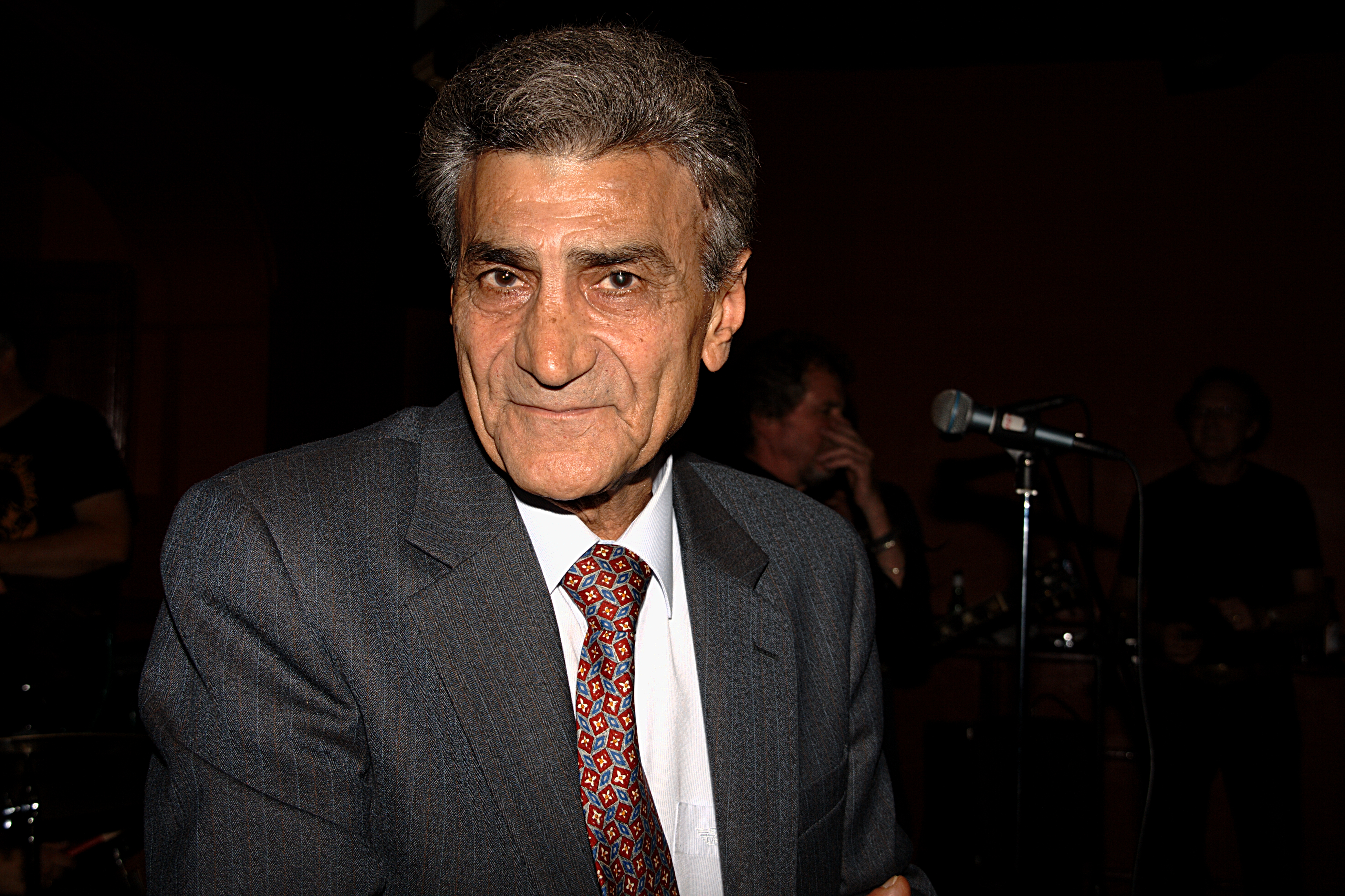 Original manager of the Ealing Jazz Club. Here attending the Ealing Club's Blue Plaque benefit night held in the Red Room (site of the former Ealing Jazz Club), 42A The Broadway, Ealing, London W5 2NP